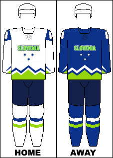 The home and away jerseys of the Slovenian national ice hockey team as used at the 2014 Winter Olympics in Sochi.